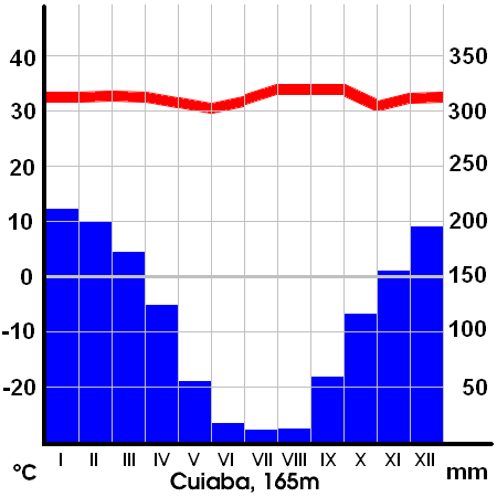 Rainfall and average max. temperature for Cuiaba, Brazil. °Celsisus and millimeters. Software: Data